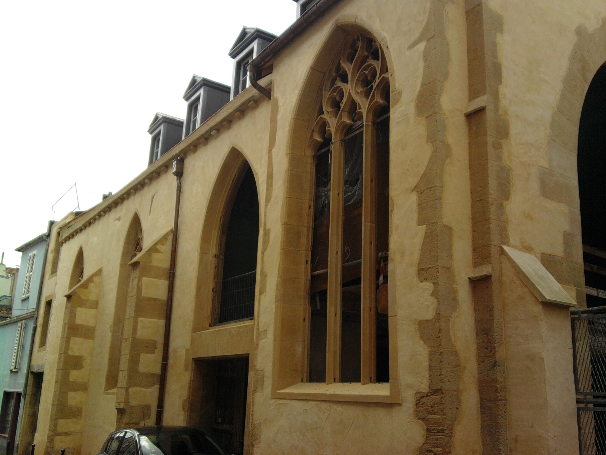 Saint-Etienne-le-Dépenné church in Metz (Outre-Seille).